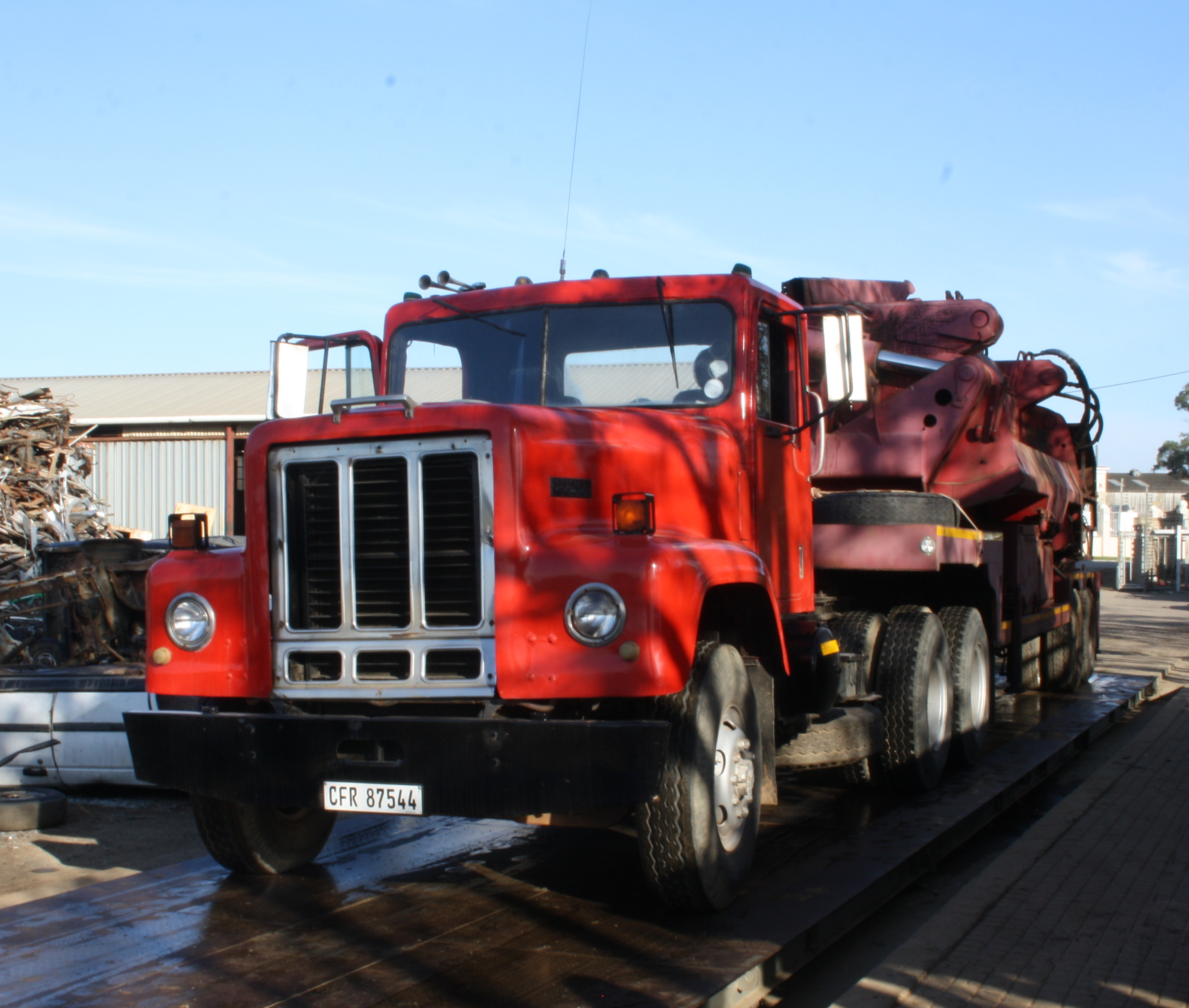 International Paystar 5000